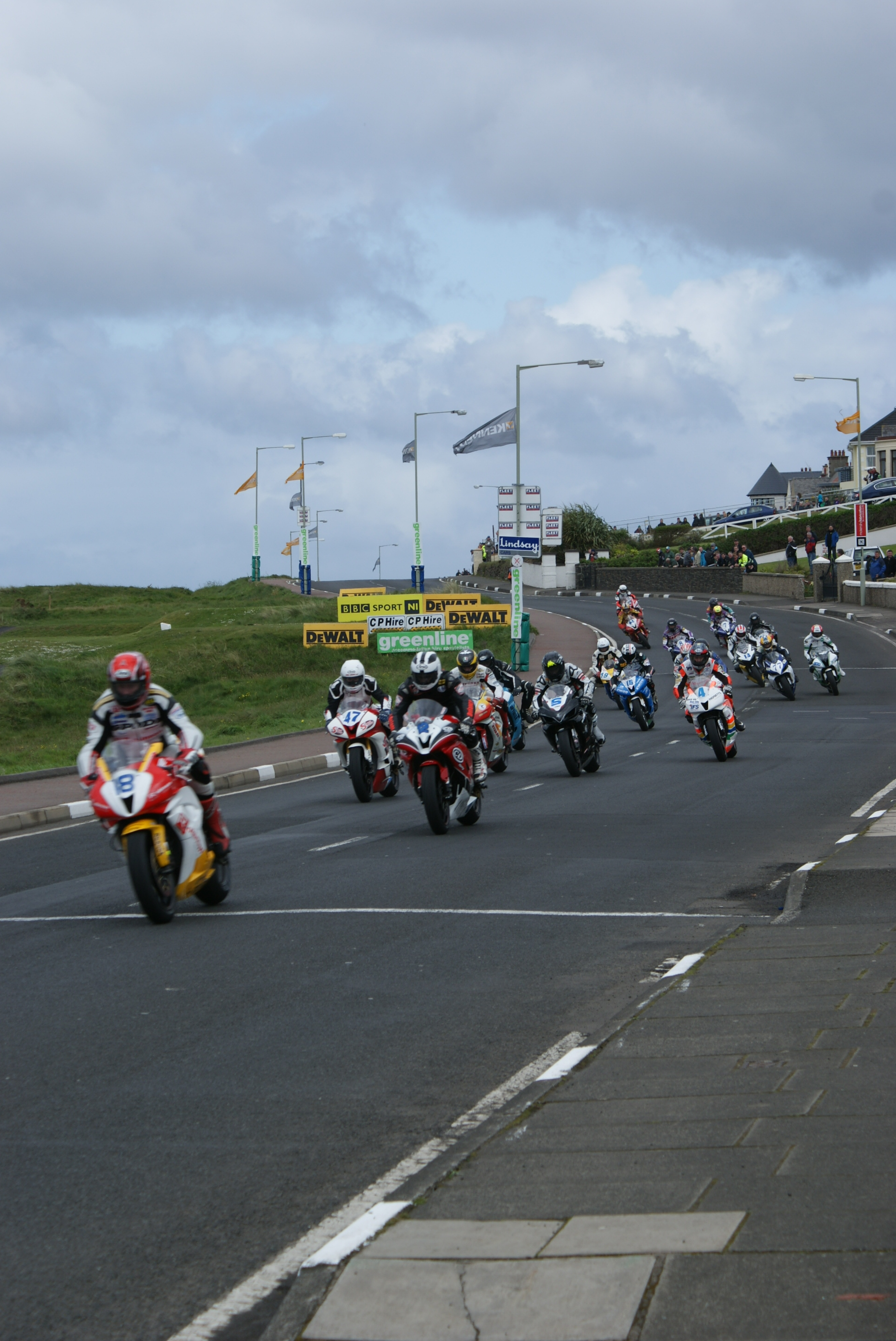 Looking up towards Juniper corner during the 2009 event